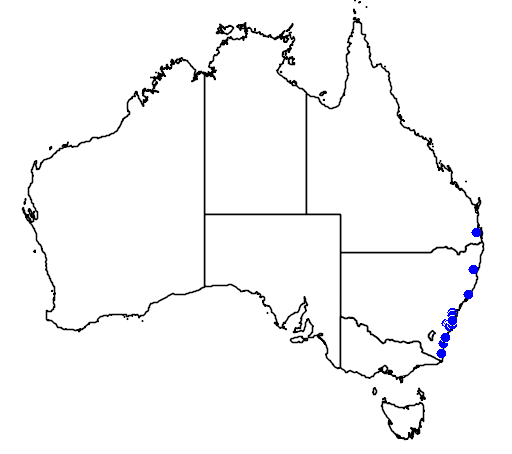 Distribution map of Meridolum gulosa